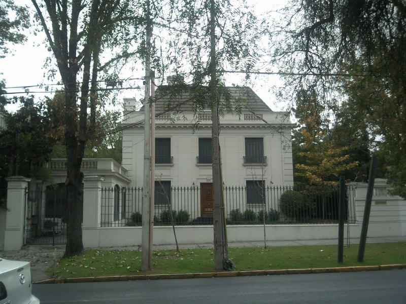 Luxury house in Santiago, Chile.